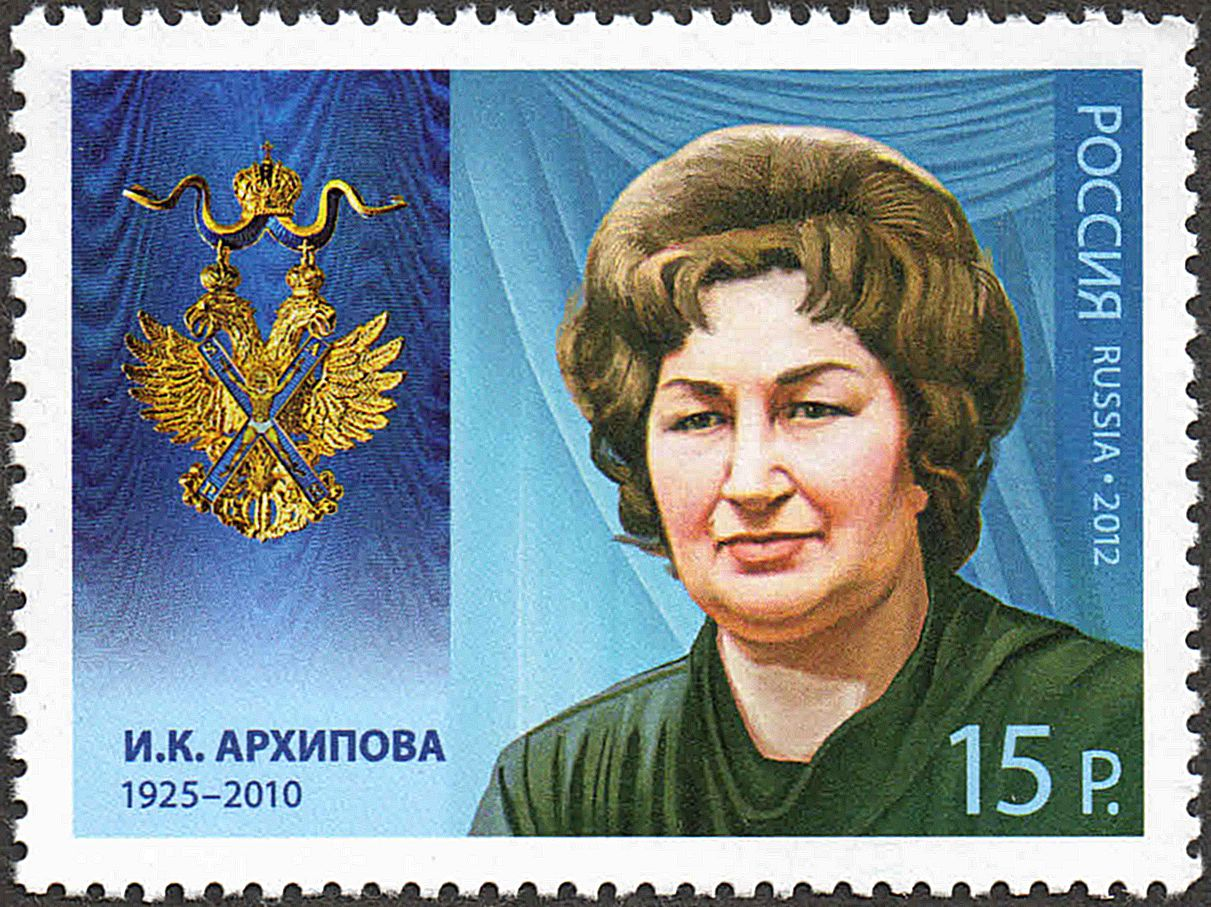 Recipients of the Order of St. Andrew the Apostle the First-Called (the ongoing series, issue II).Irina Arkhipova[1] (1925–2010), a Soviet and Russian opera singer and a teacher of art.There depicted the badge of the Order of St. Andrew on the left. The stamp of Russia, 15.00 Rubles, 29 June 2012, PTC Marka Catalogue No 1603, Michel No 1835. Coated paper. Offset printing, varnish coating. Perforation: comb 12×11½. Size of the stamp: 50×37 mm. Print run: 440,000.